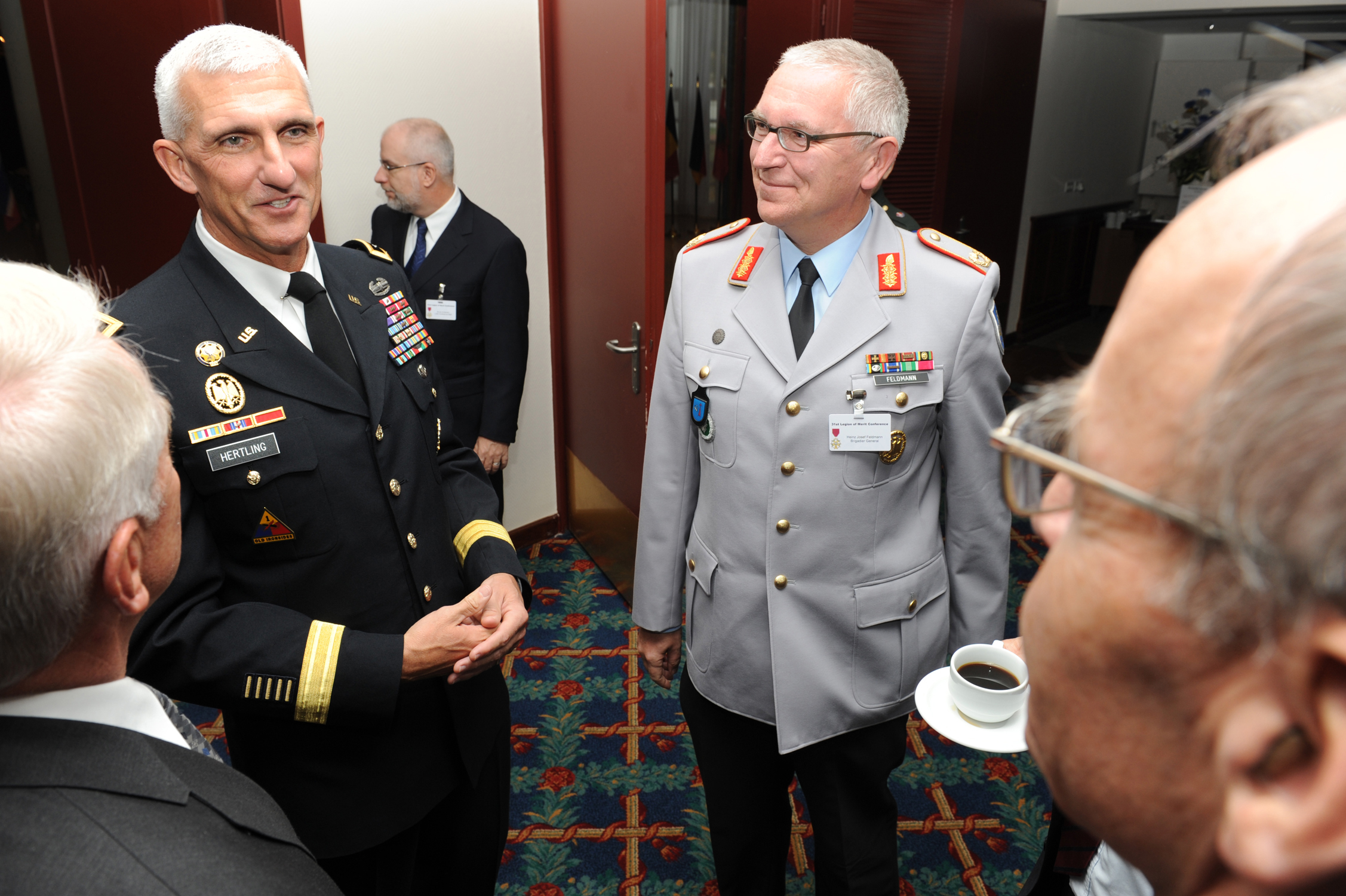 HEIDELBERG, Germany – Lt. Gen. Mark Hertling, commander of U.S. Army Europe, speaks with German Brig. Gen. Heinz Josef Feldmann and other guests during the 31st Legion of Merit Conference at the Village Pavilion here, Oct. 27. The conference brought together approximately 65 active and retired U.S. and European senior military leaders from six countries and members of leading military think tanks to share their viewpoints and experience in discussions of European security cooperation and partnership.